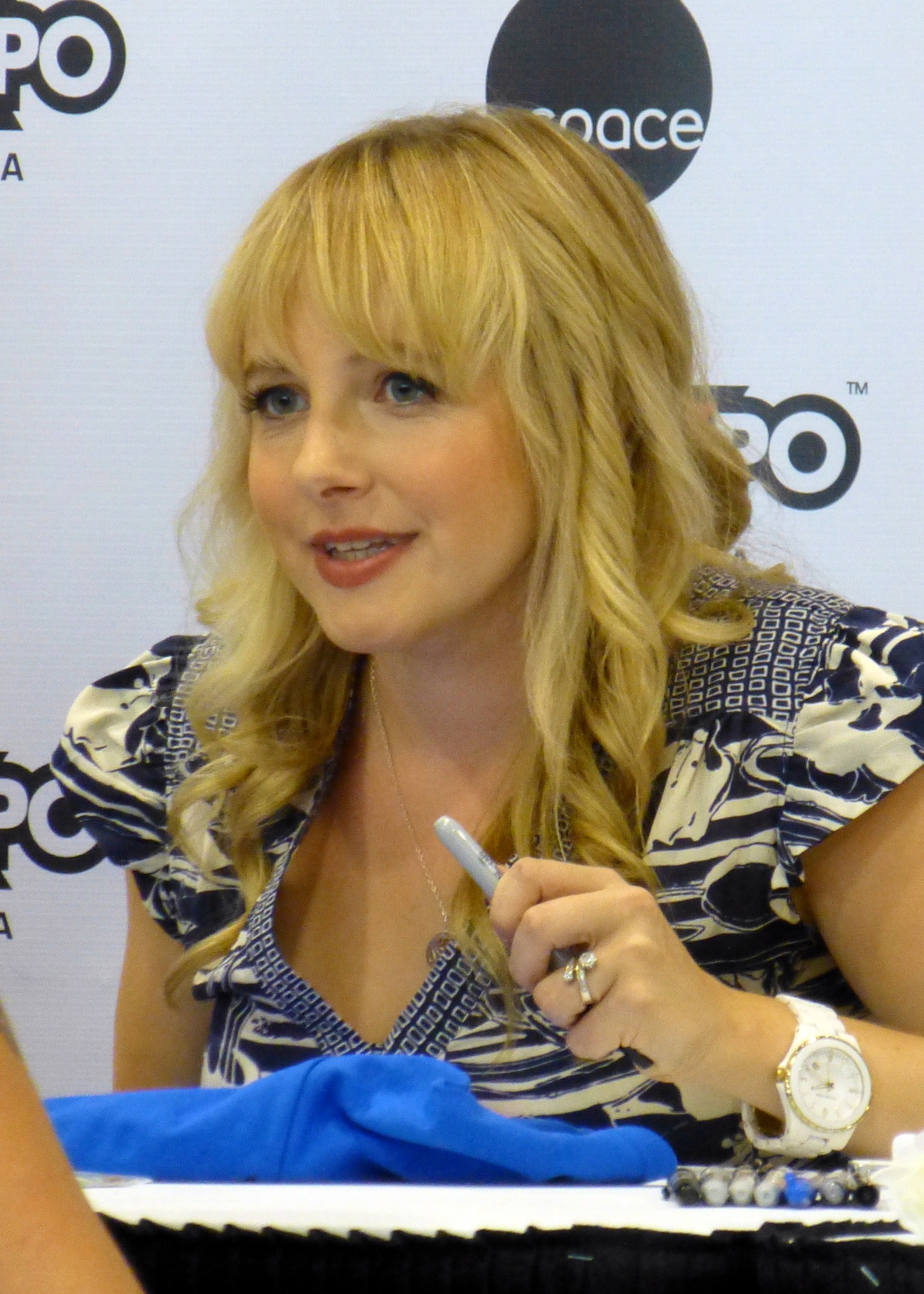 Does voicework on animated shows, noted for My Little Pony 2014 Fan Expo Canada